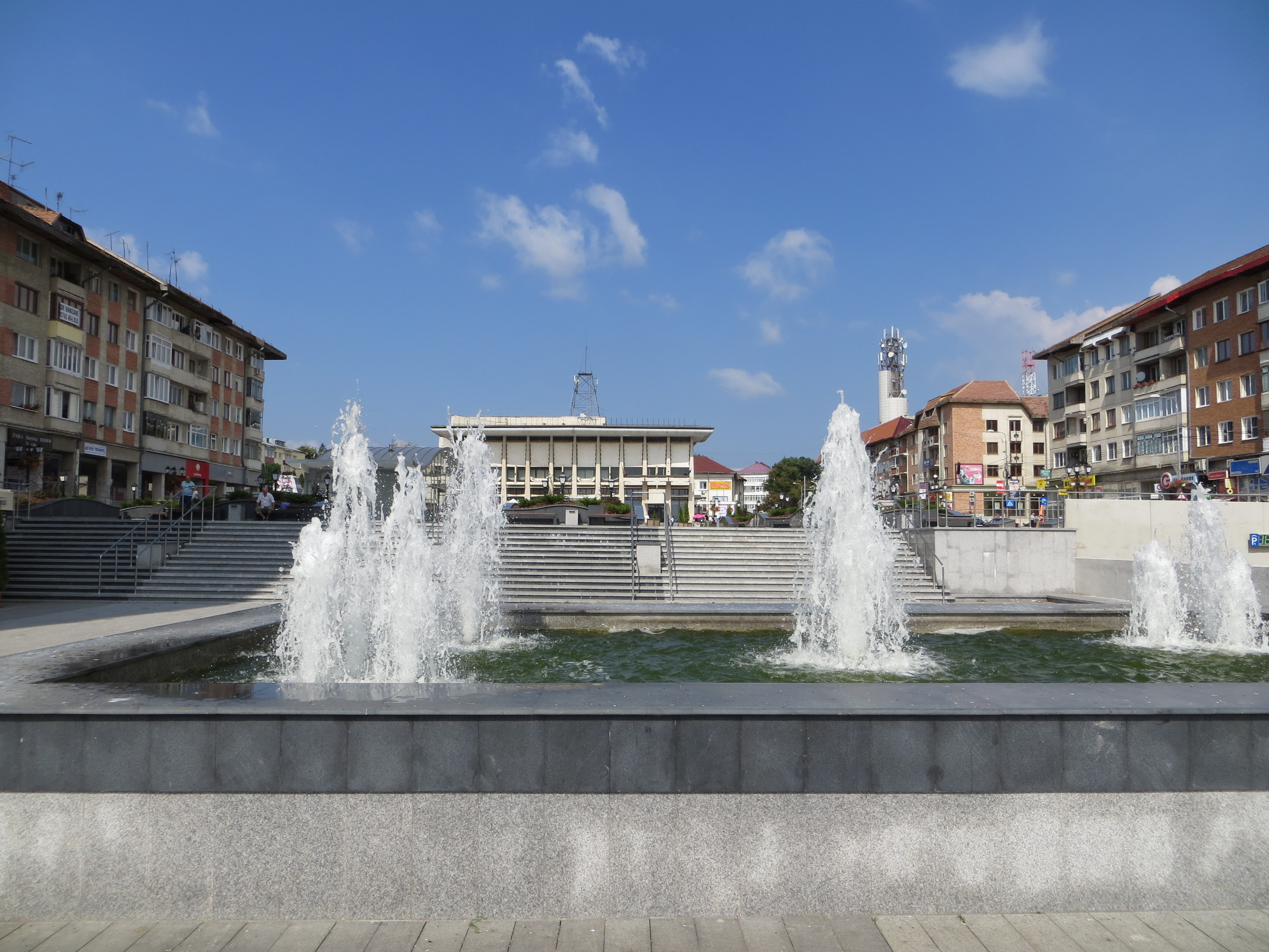 22 Decembrie Square in Suceava.